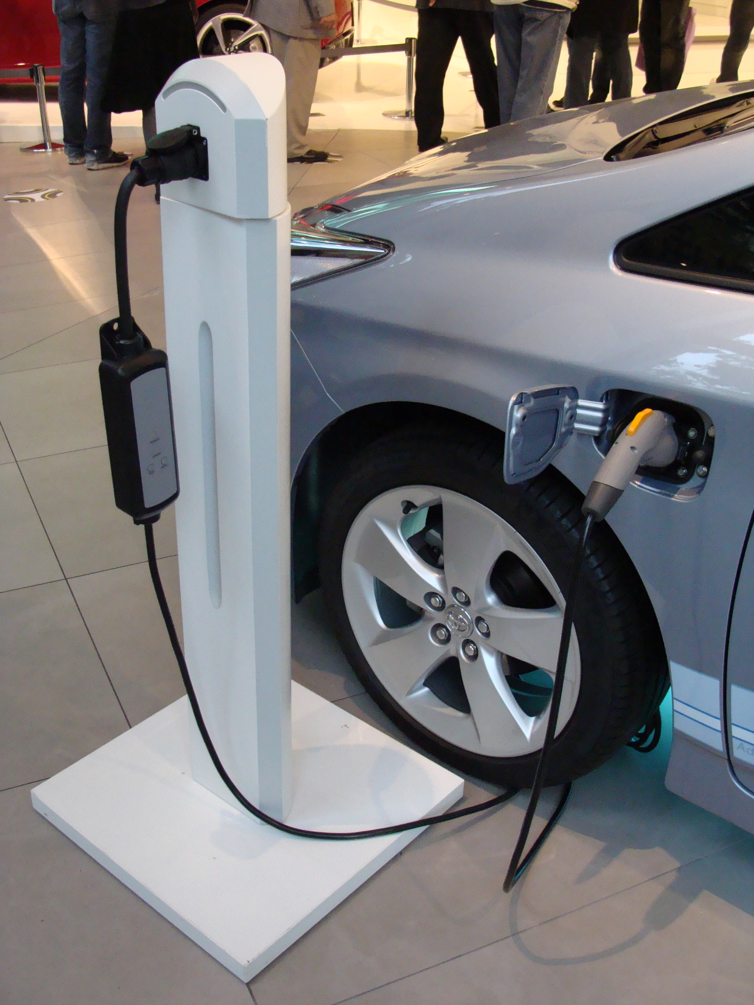 Toyota Prius Hybrid recharging unit